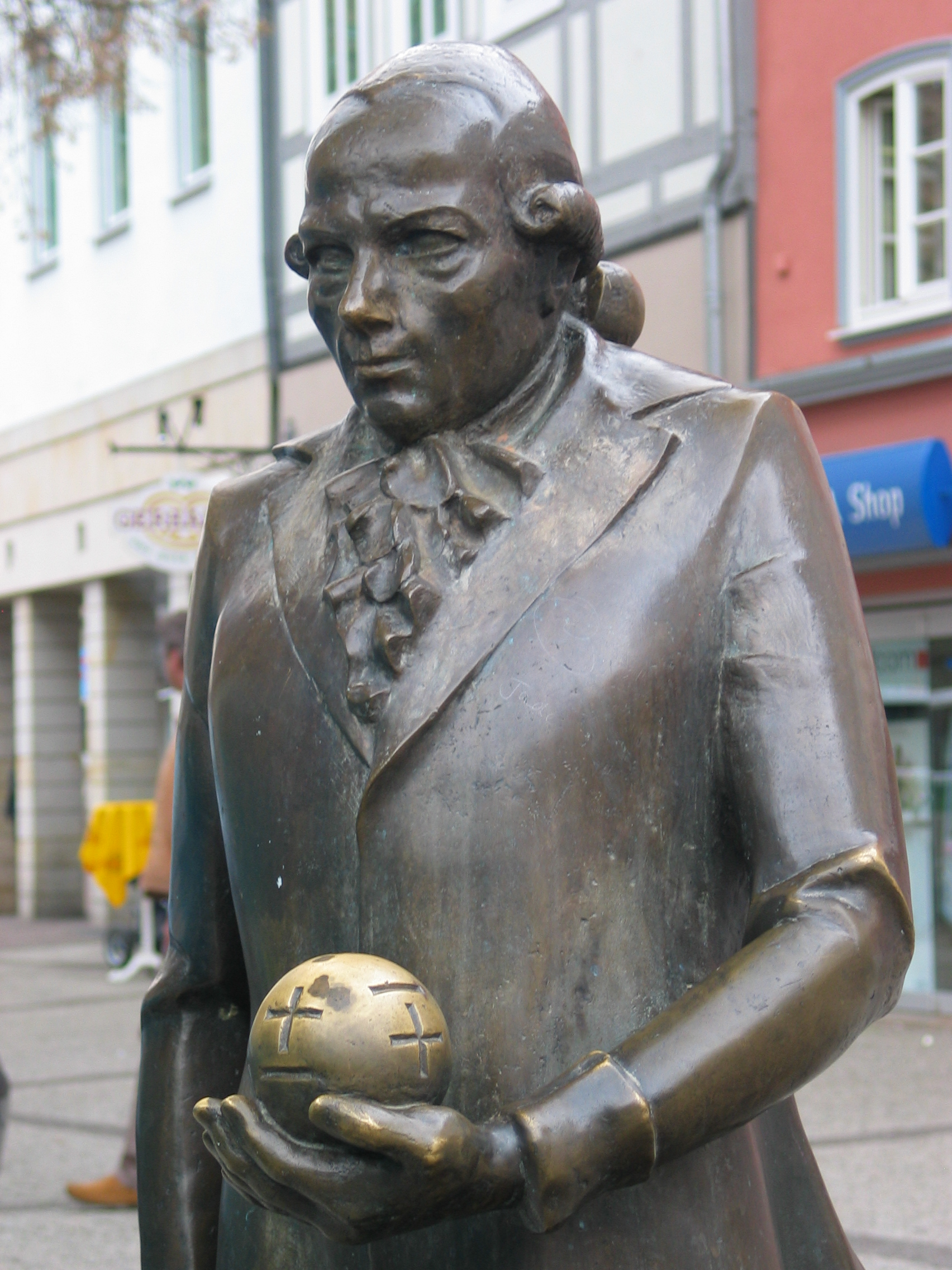 Statue of Georg Christoph Lichtenberg. Market place, Göttingen, Germany.